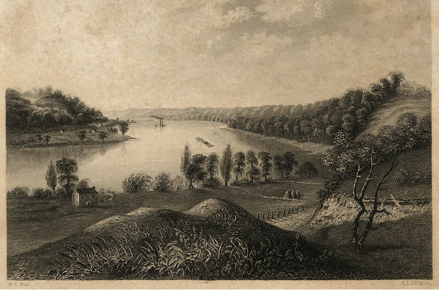 An engraving depicting Pittsburg (no 'h') along the shore of the Ohio river looking toward the point. The dirt road later known as Route 51 can be seen along with a few farms